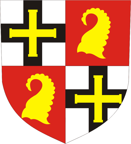 Teutonic Order - Coat of Arms of the Grandmaster Hermann von Salza